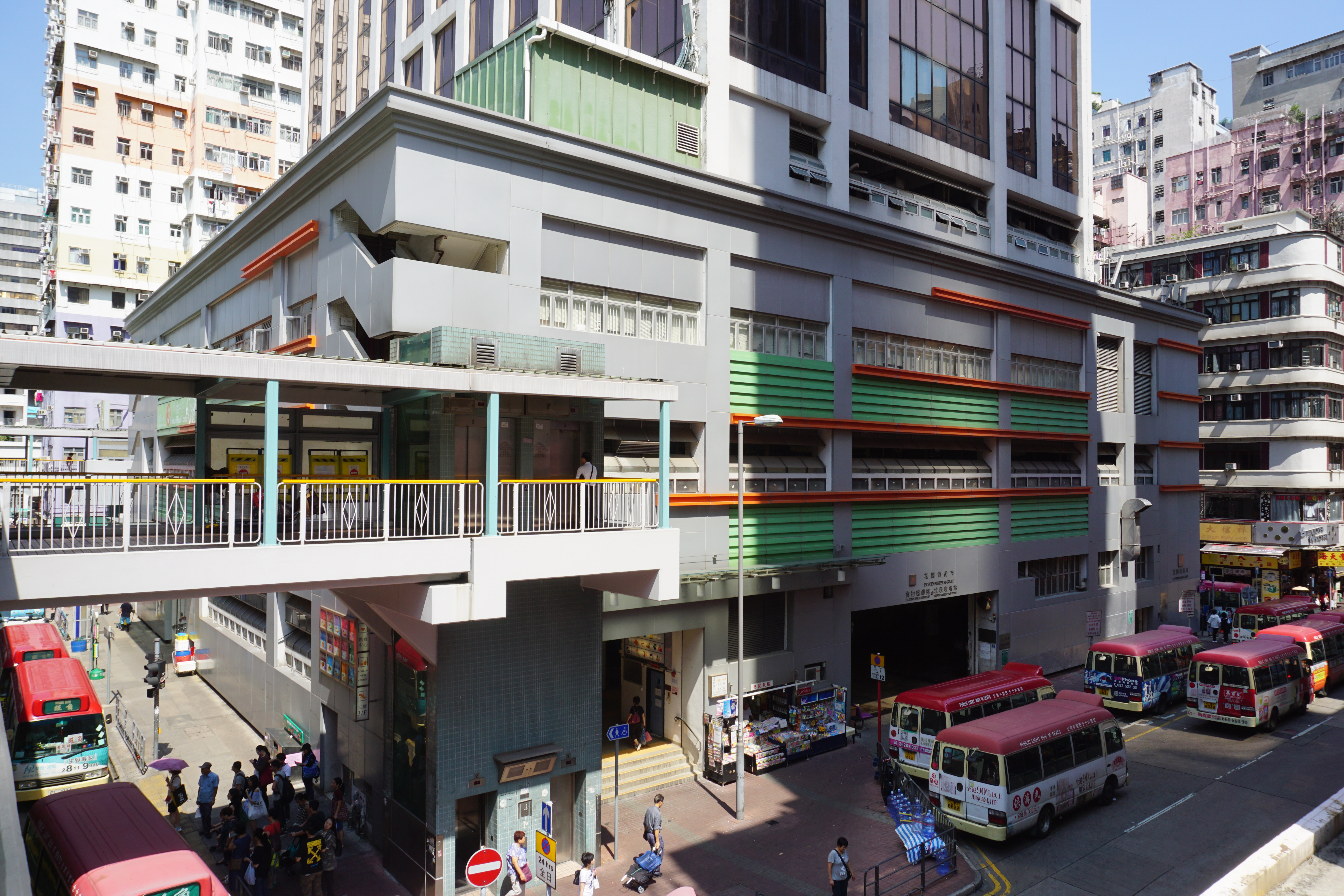 Fa Yuen Street Municipal Services Building in Mong Kok, Hong Kong.